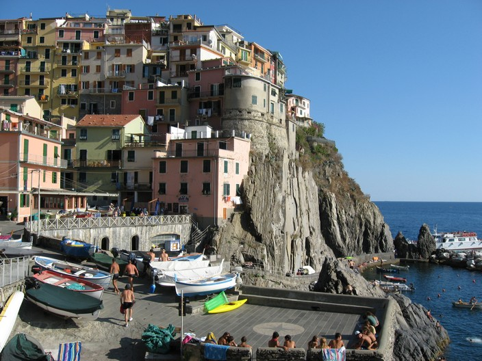 Manarola village